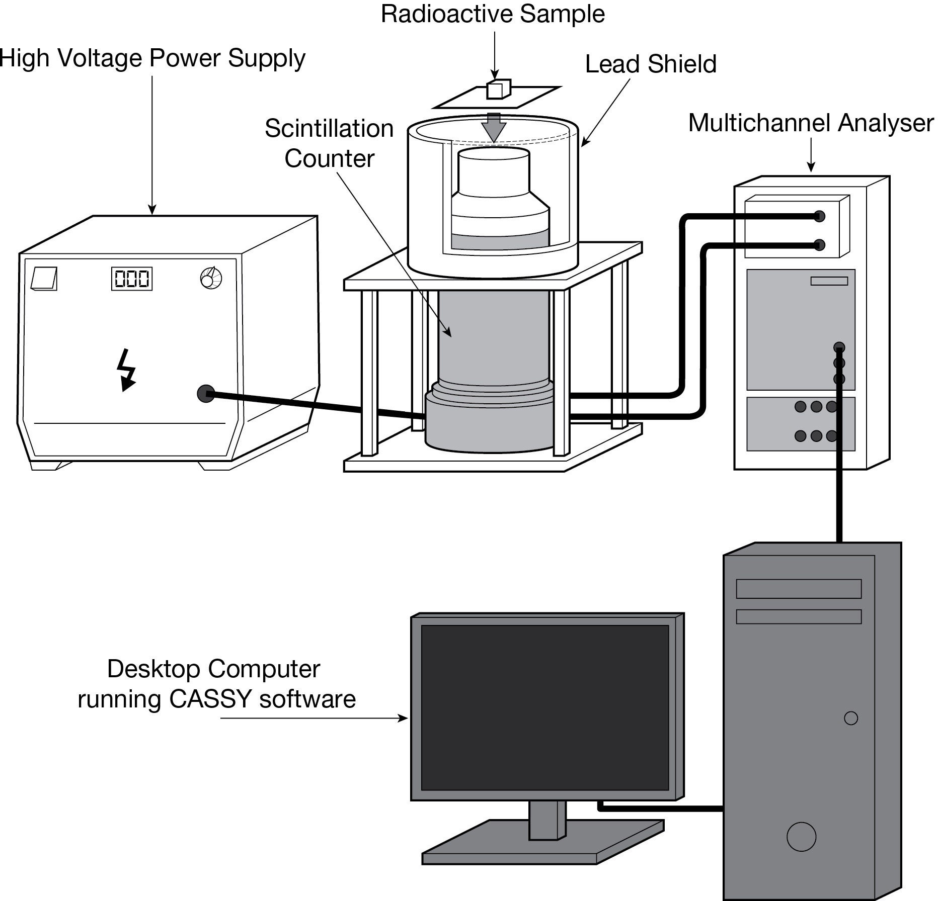 The experimental setup for detemination of γ-radiation spectrum with a scintillation counter. A high voltage power supply is connected to the scintillation counter. The sctintillation counter is connected to the MCA which sends information to the computer.